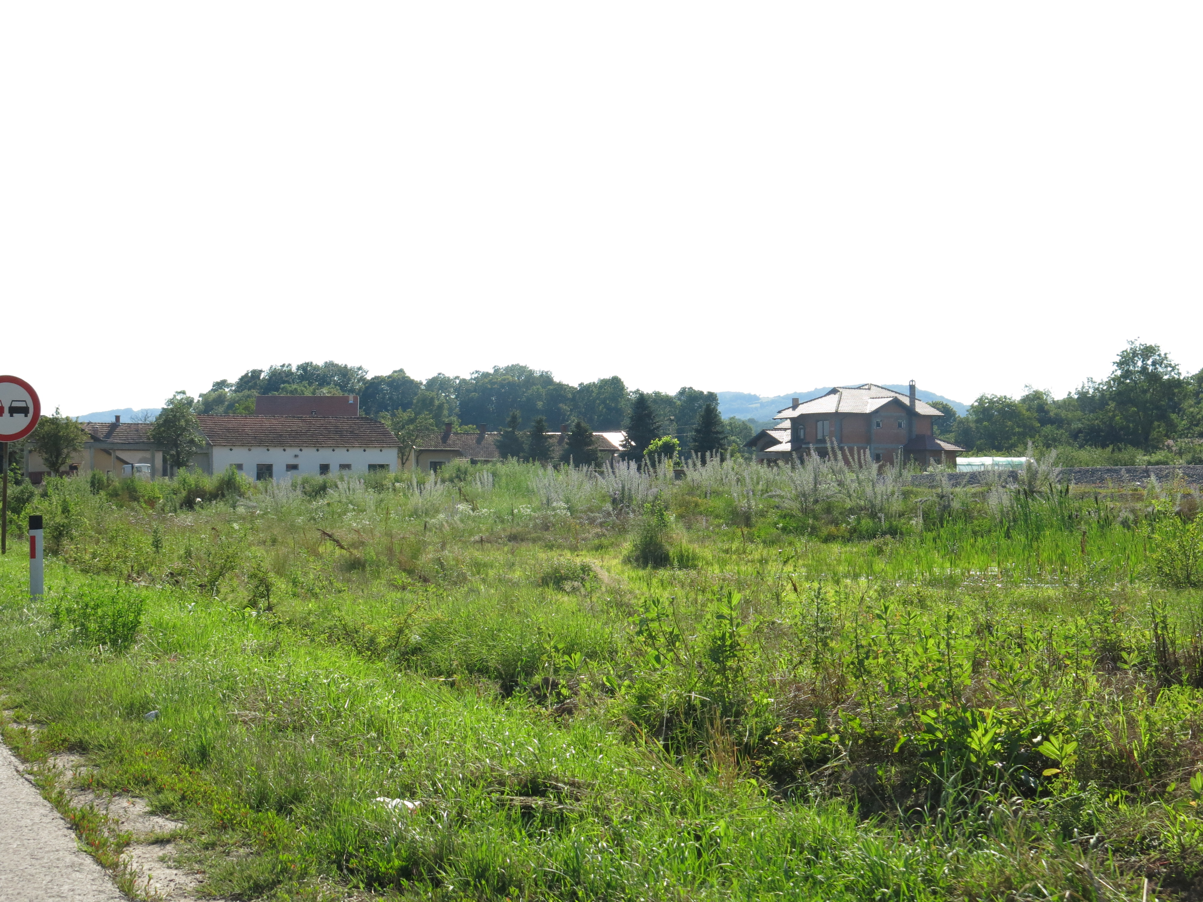 Nepričava, Street